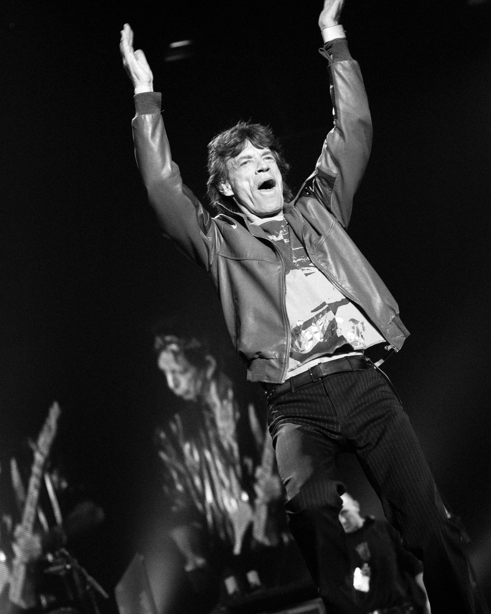 500px provided description: Mick Jagger [#show ,#rock ,#concert ,#music ,#live ,#performance ,#stage ,#gig ,#band ,#singer ,#the rolling stones ,#Mick Jagger]